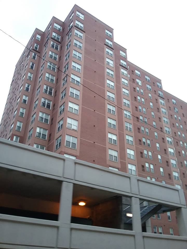 Side view of the Crittenden in Cleveland